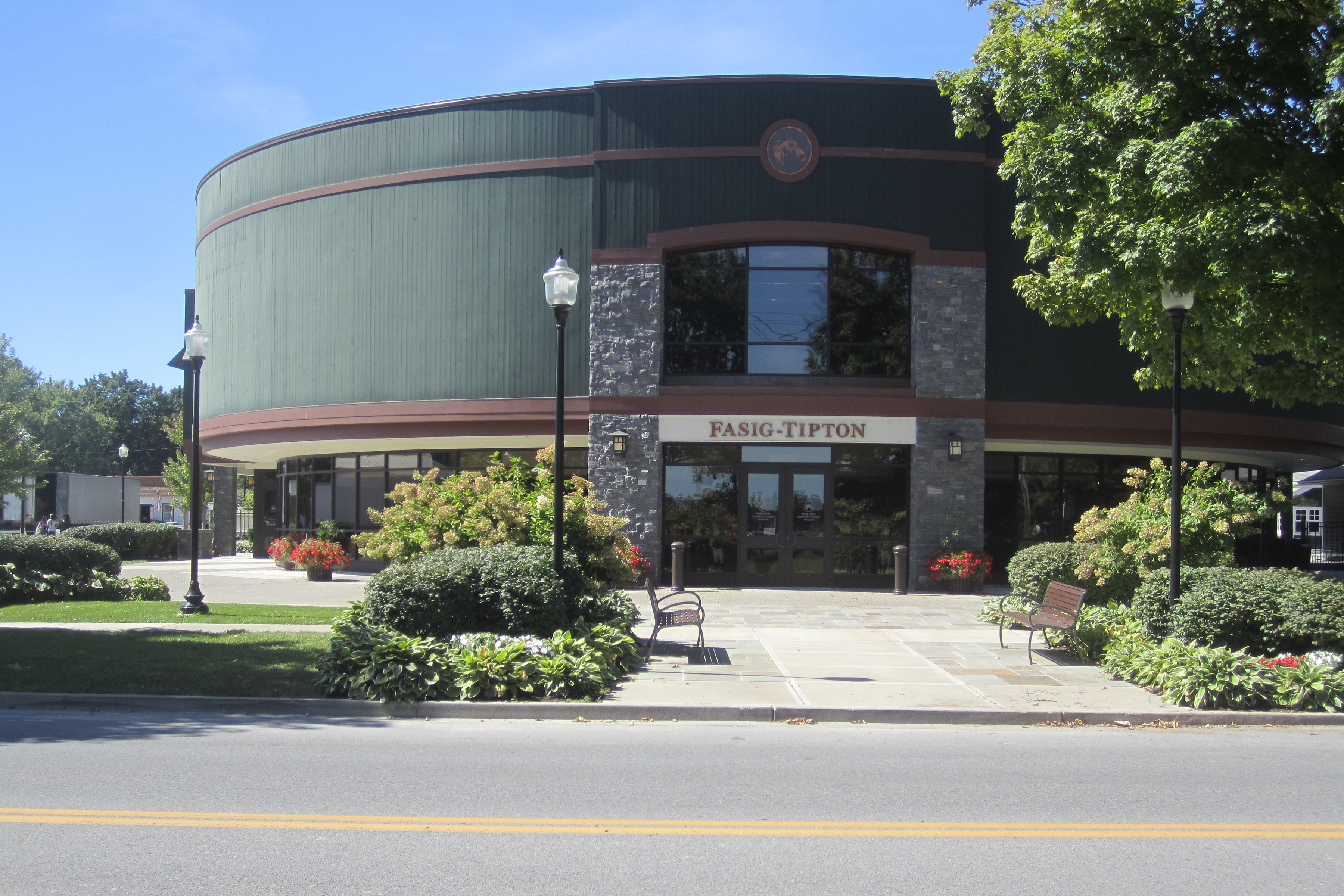 Fasig-Tipton thoroughbred auctions, Humphrey S. Finney Pavilion, Saratoga Springs NY